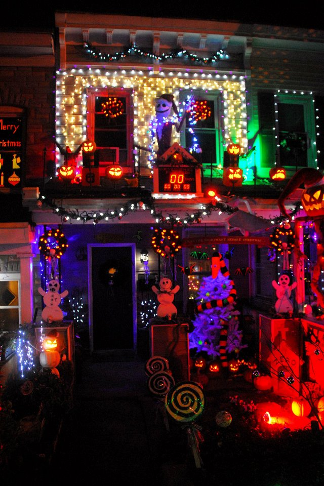 The infamous 'Halloween House' which has syncronized lights during the Christmas season.